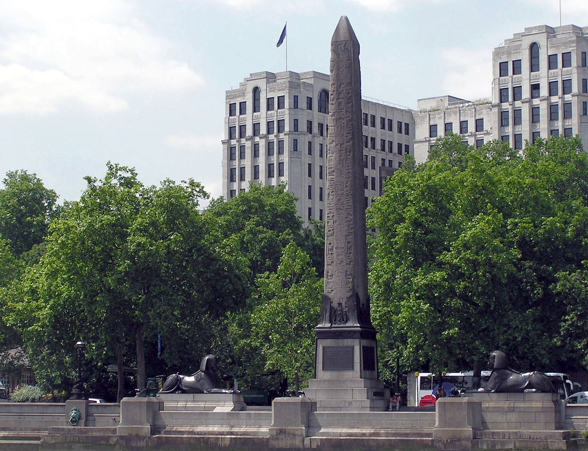 Cleopatra’s Needle in London seen from the River Thames. In the background the New Adelphi, a monumental Art Deco building designed by the firm of Collcutt & Hamp.in the 1930s For scale, a person is sat at the base of the Needle. Photographed by Adrian Pingstone in June 2005 and released to the public domain.